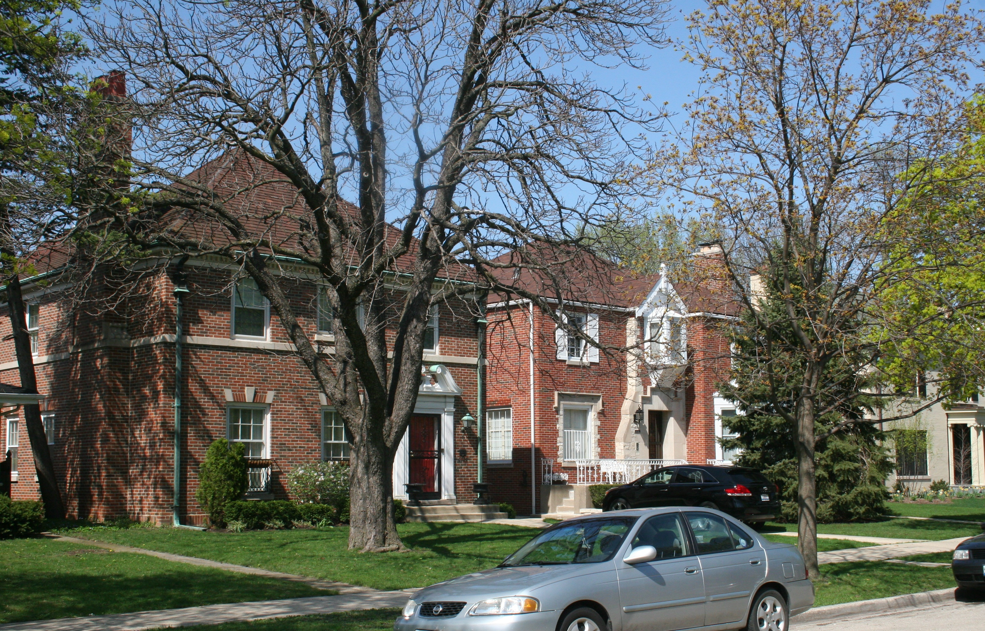 The houses depicted are centrally located in the Sauganash Historic District of Chicago, IL.